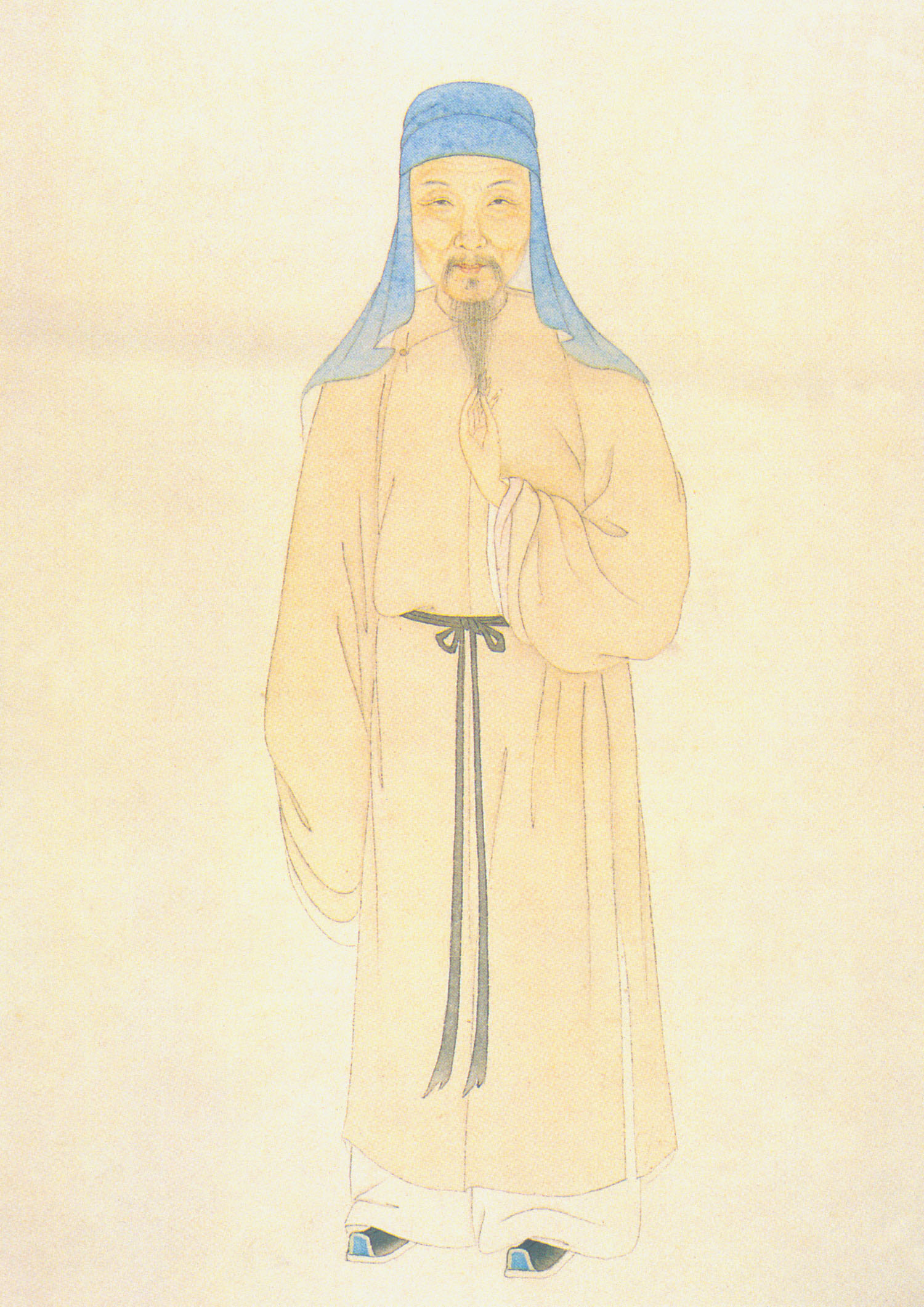 Mao Xiang, scholar of the Qing Dynasty.